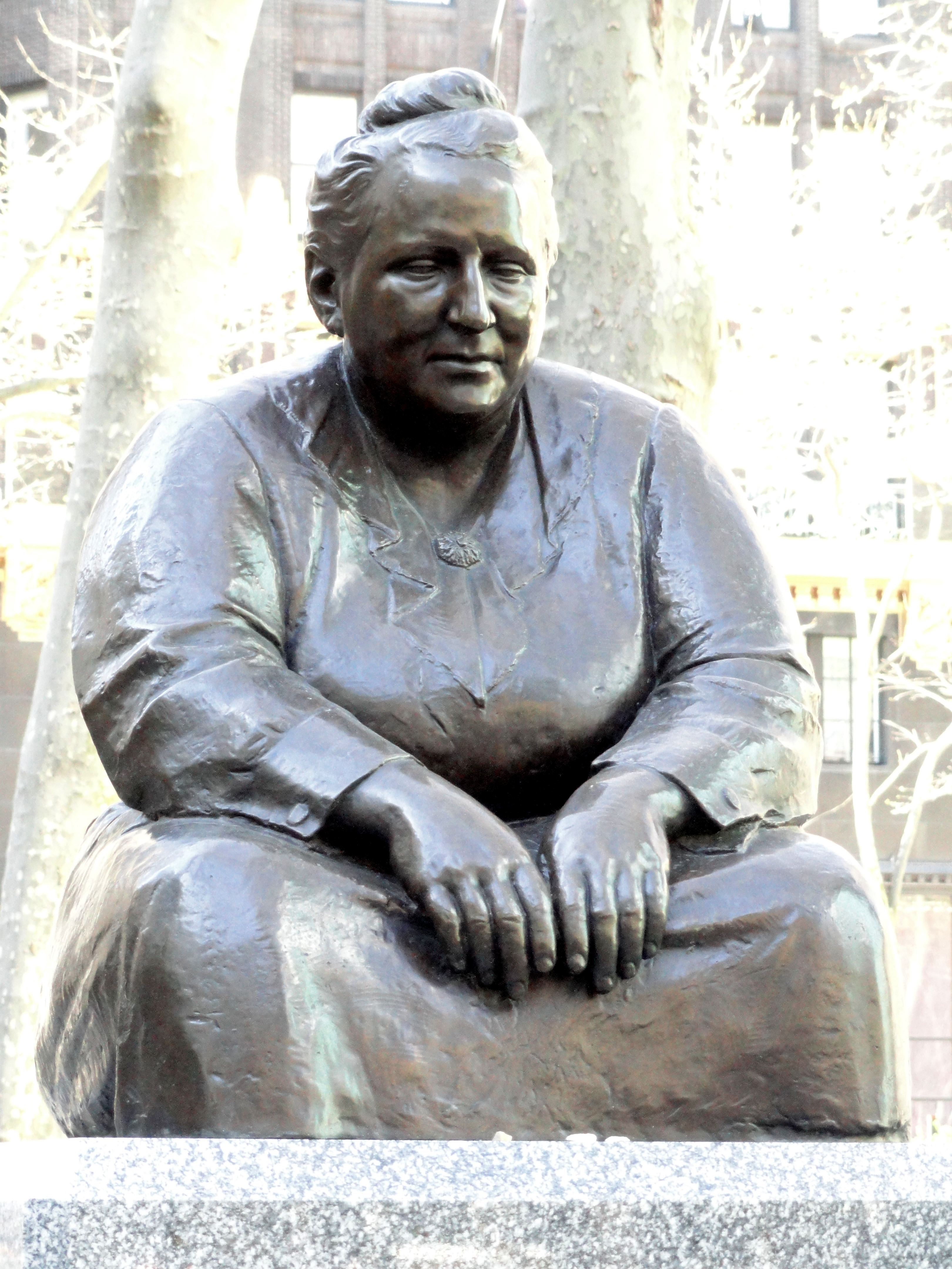 Gertrude Stein by Jo Davidson (1883-1952), Bryant, New York City, New York, USA. Created 1923, recast 1991. Now in the public domain because published in the United States between 1923 and 1963, with its copyright not renewed.